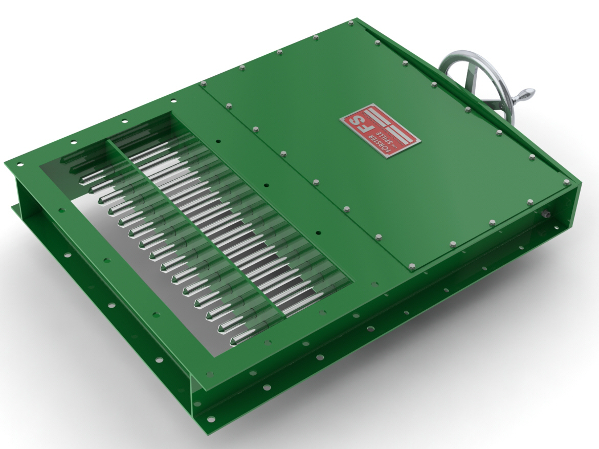 Needle valve with handwheel